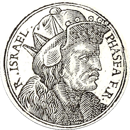 Pekahiah